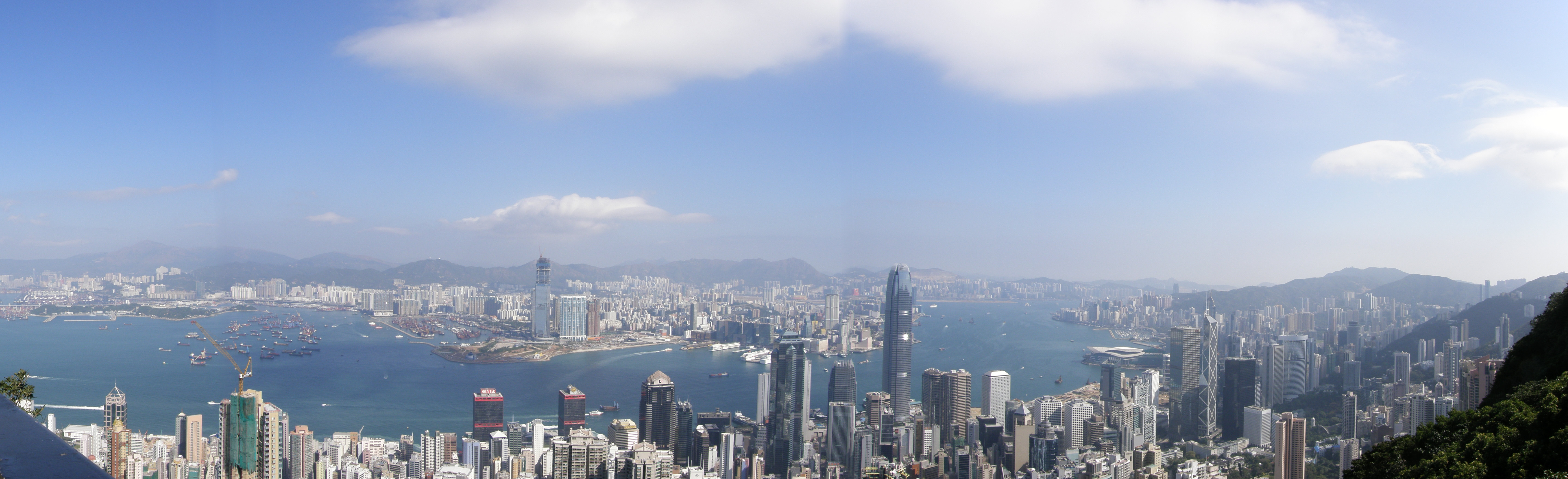 A merged picture taken near to Victoria Peak. Shows the Victoria Harbour and surronding area.